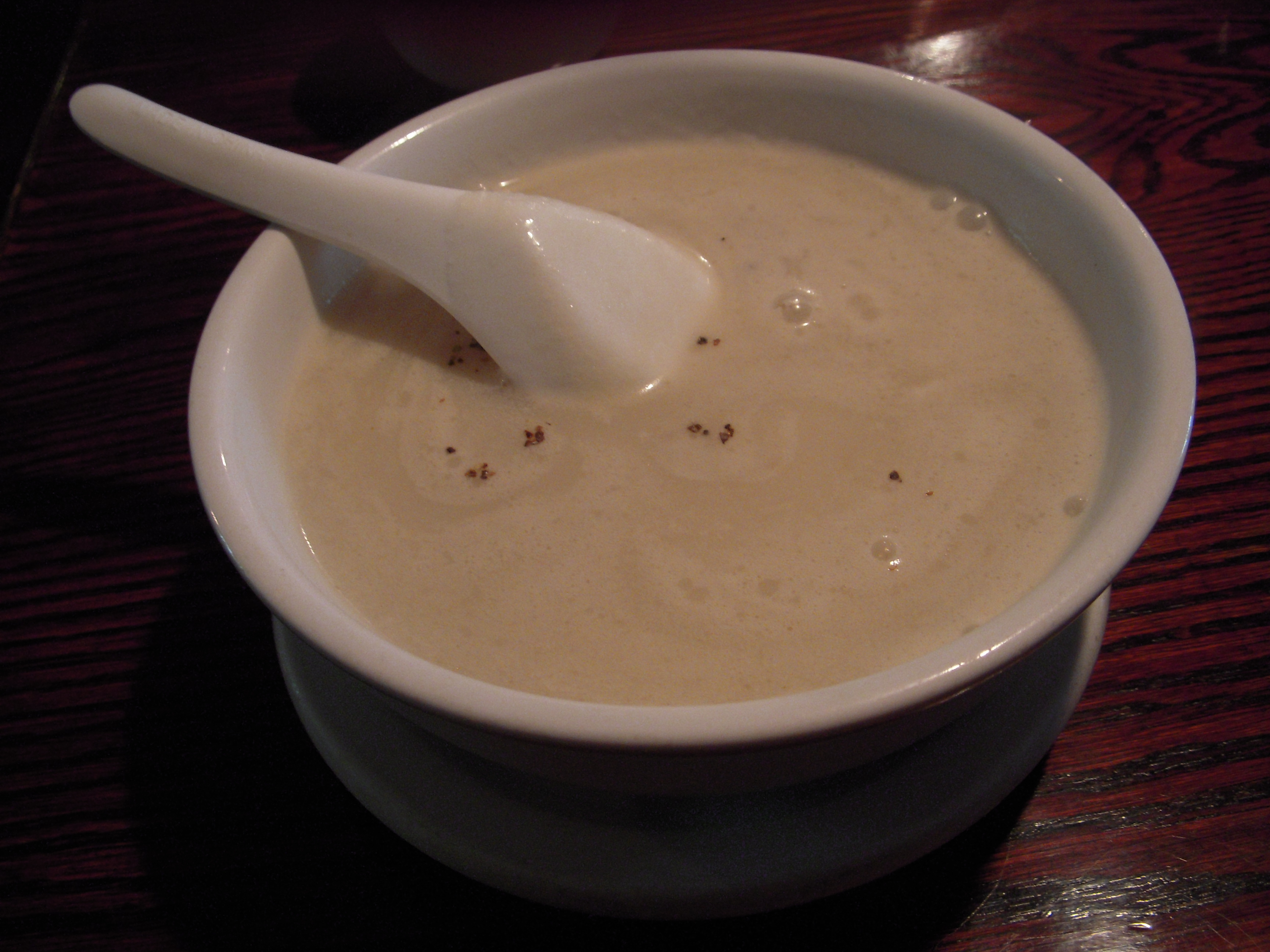 Tibetan Blue Cheese soup from Chez Gatse